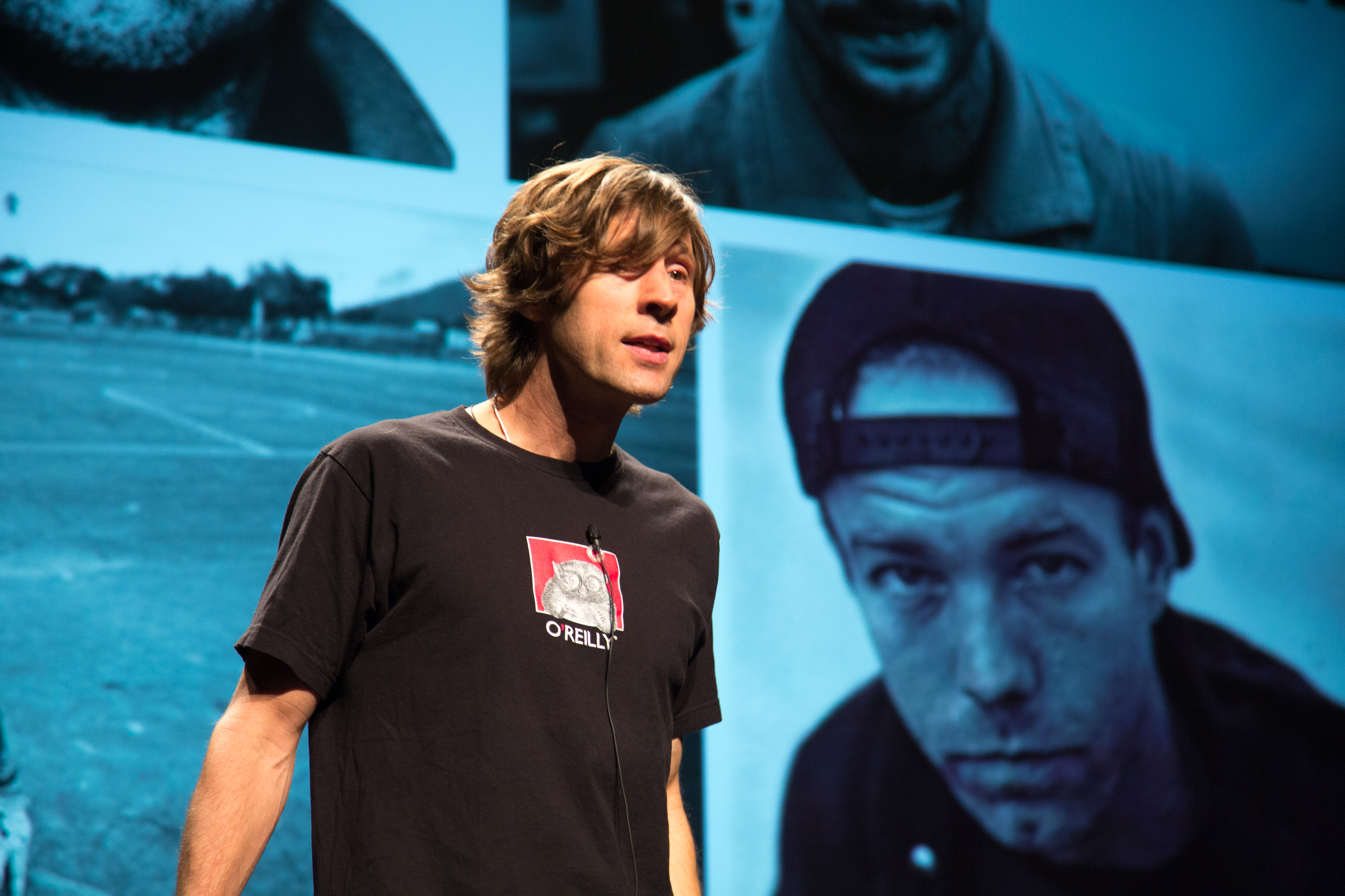 Rodney Mullen at PopTech, Camden, Maine.